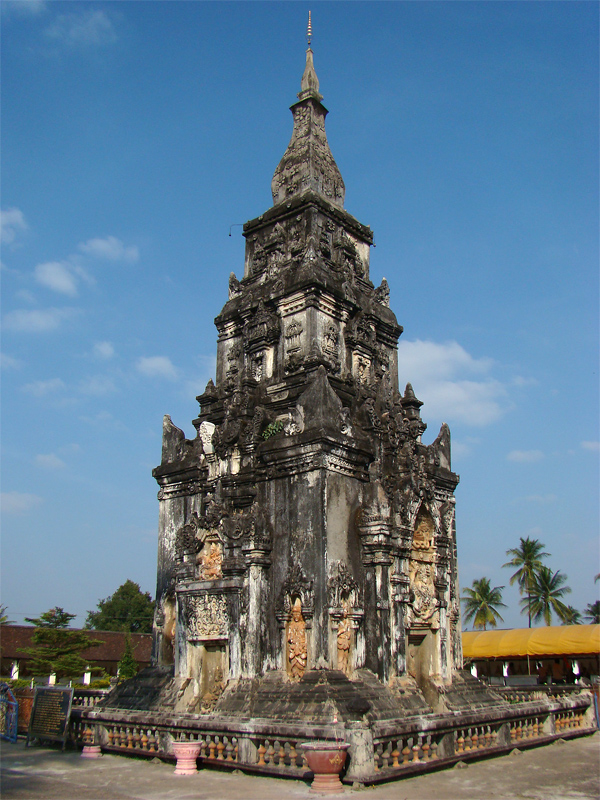 That Ing Hang, Savannakhet Province, Laos.